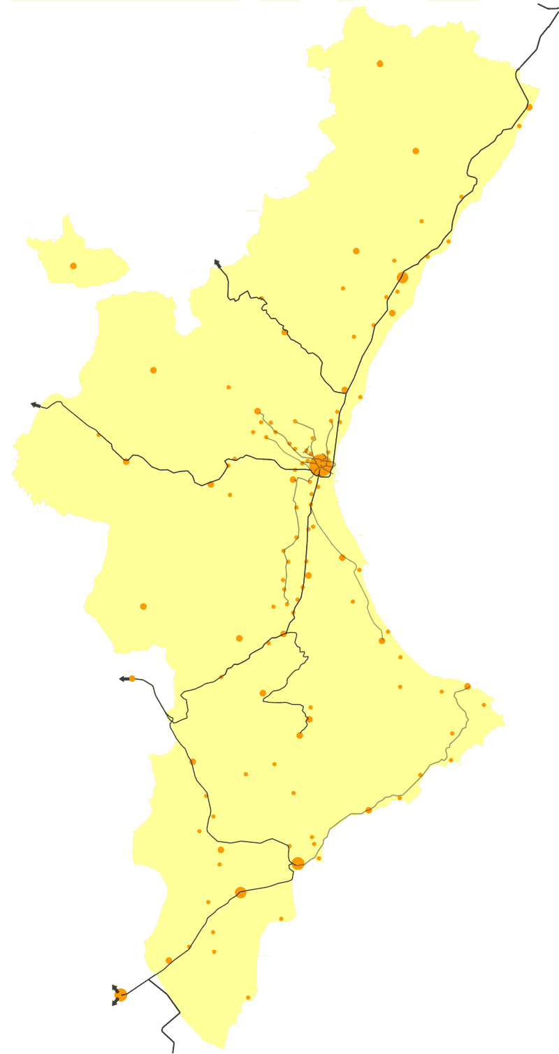 Map of regional and long-distance train services in the Valencia region.